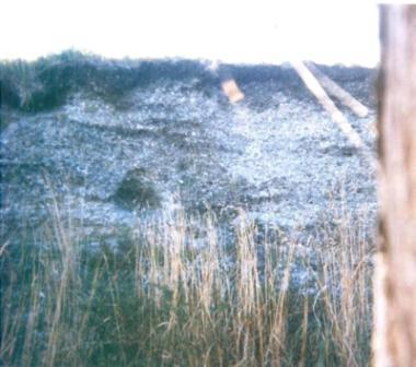 Shell midden in Nercón, near Castro, Chiloé, Chile